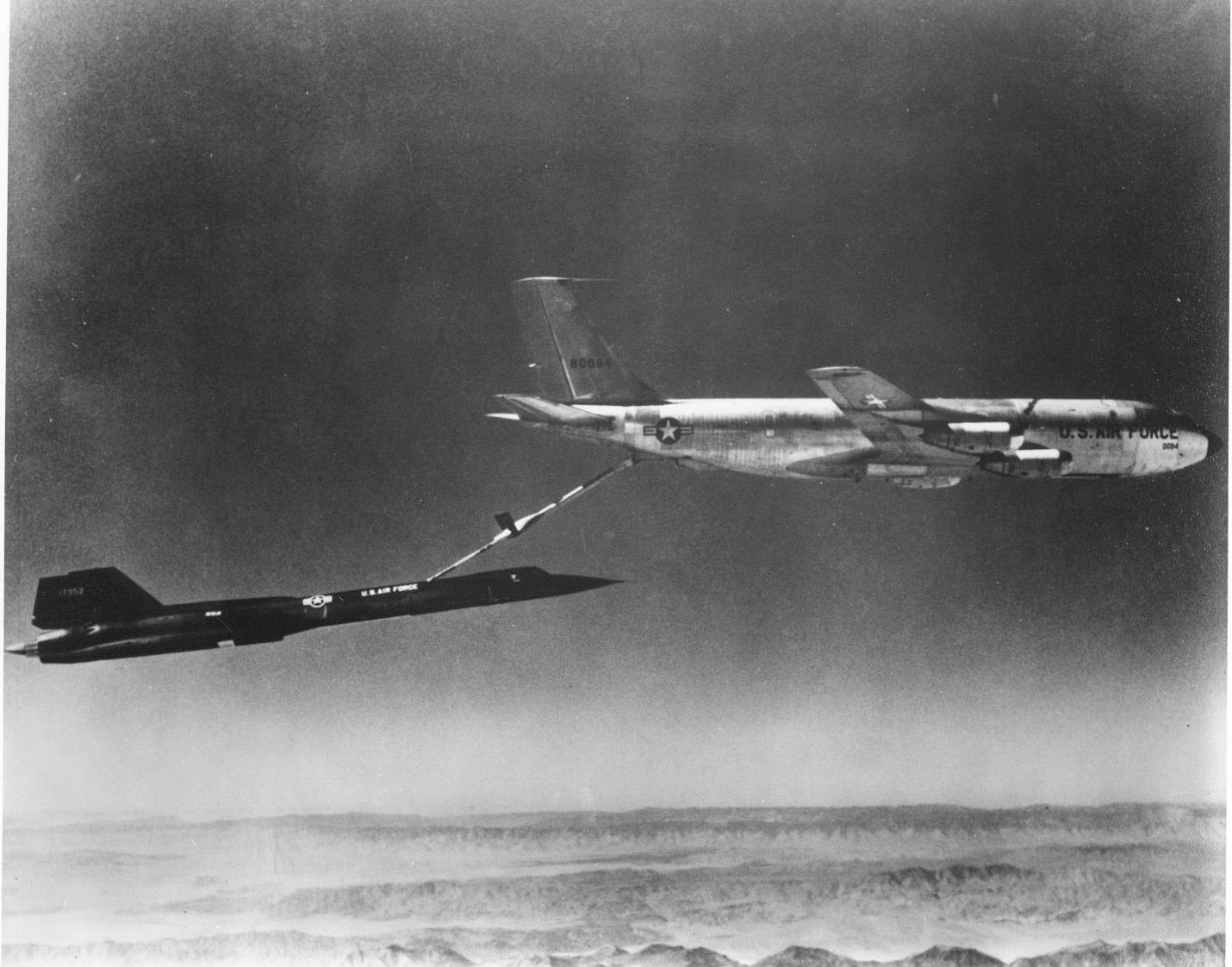 A U.S. Air Force Lockheed SR-71A (SN 61-7952) refuels from KC-135Q (SN 58-0094).